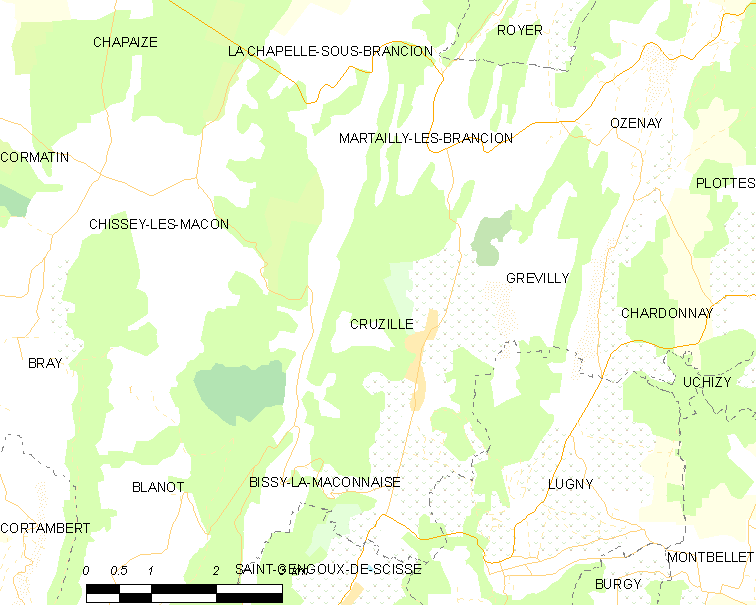 Map of French municipality